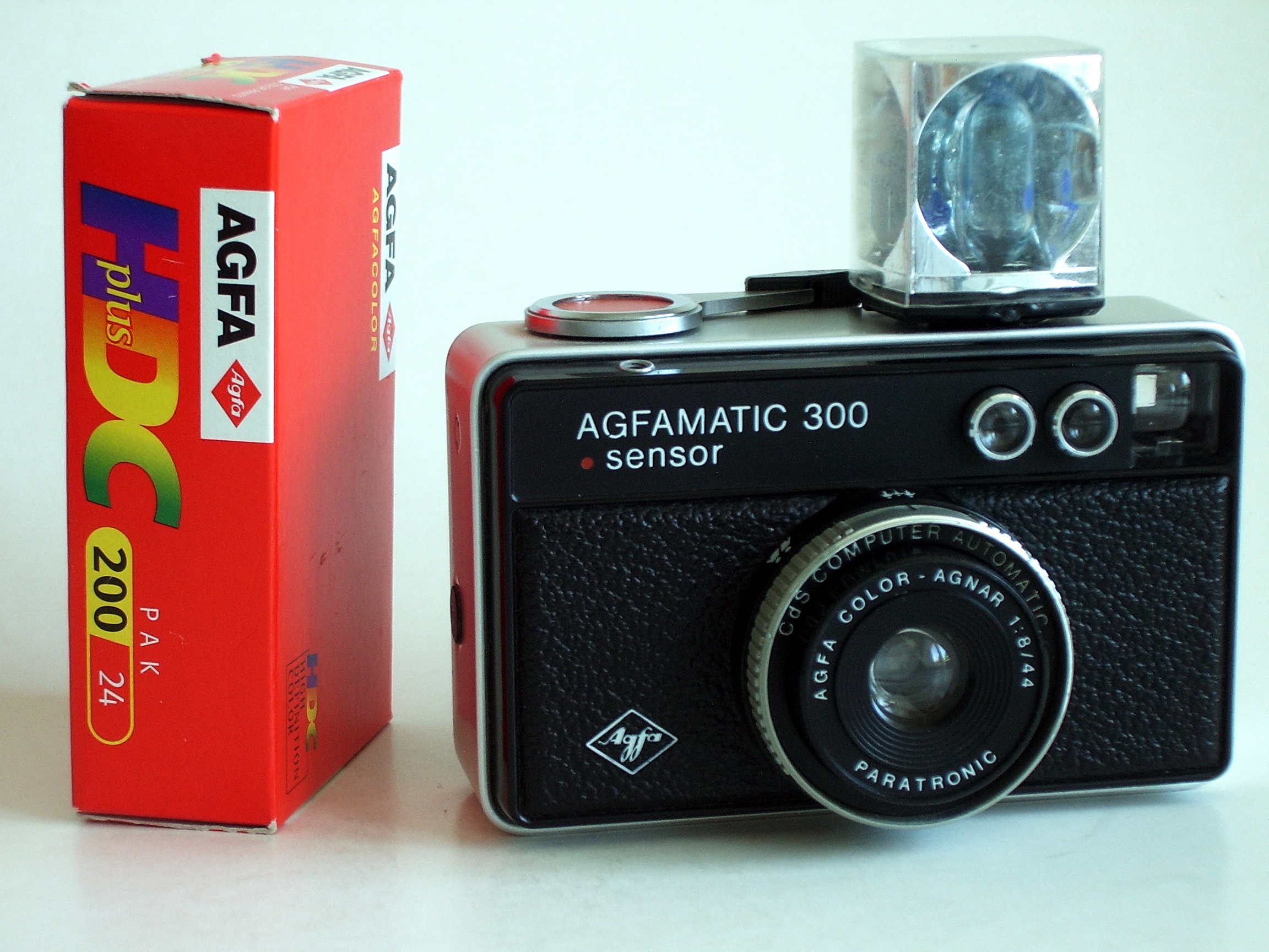 Agfamatic 300 sensor camera with flash cube on top. Uses type 126 Instamatic PAK film cartridges. Automatic exposure control by CdS sensor. Manual focus using icons for portrait (=1.5m), group (=2.5m) and landscape (=3.5m) distance on top of the lens barrel, in meters and feet on the bottom side. Lens Agfa Color-Agnar 1:8/44. Paratronic shutter. Agfa HDC 200 PAK-film package for scale.